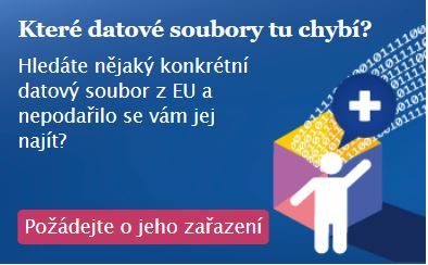 Screenshot from Open Data Portal